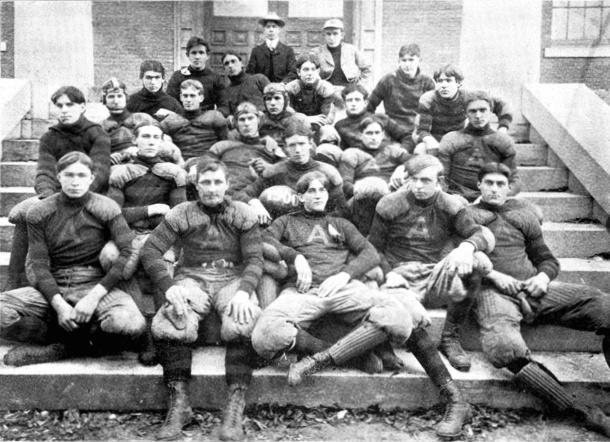 This is the 1900 varsity football team for the Alabama Polytechnic Institute (now Auburn University). Pictured are, front row: Jeremiah Warren Gwinn, Rufus White Butler, Michael Smith Harvey, William Houston Gwinn, Godfrey Rhodes Thomas. Second row: William Burns Patterson, John Hunt Skeggs, Captain Daniel Stacy Martin (holding the football). Third row: Frank Carlisle Bivings, Matthew Scott Sloan, George Baker Tyson. Fourth row: Henry Brigham Park, Isaac Sadler McAdory, William Louis Noll, Forney Renfro Yarborough, W. C. Martin. Fifth row: Isaac Ball Feagin. Sixth row: Henry Alexander Skeggs, unknown, Collins James Johnson, William Cruse Coles. Seventh row: Manager Charles Wellington Nixon, Coach W. C. Watkins.